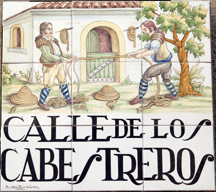 Sign of Calle de los Cabestreros (street, Centro district) in Madrid (Spain).